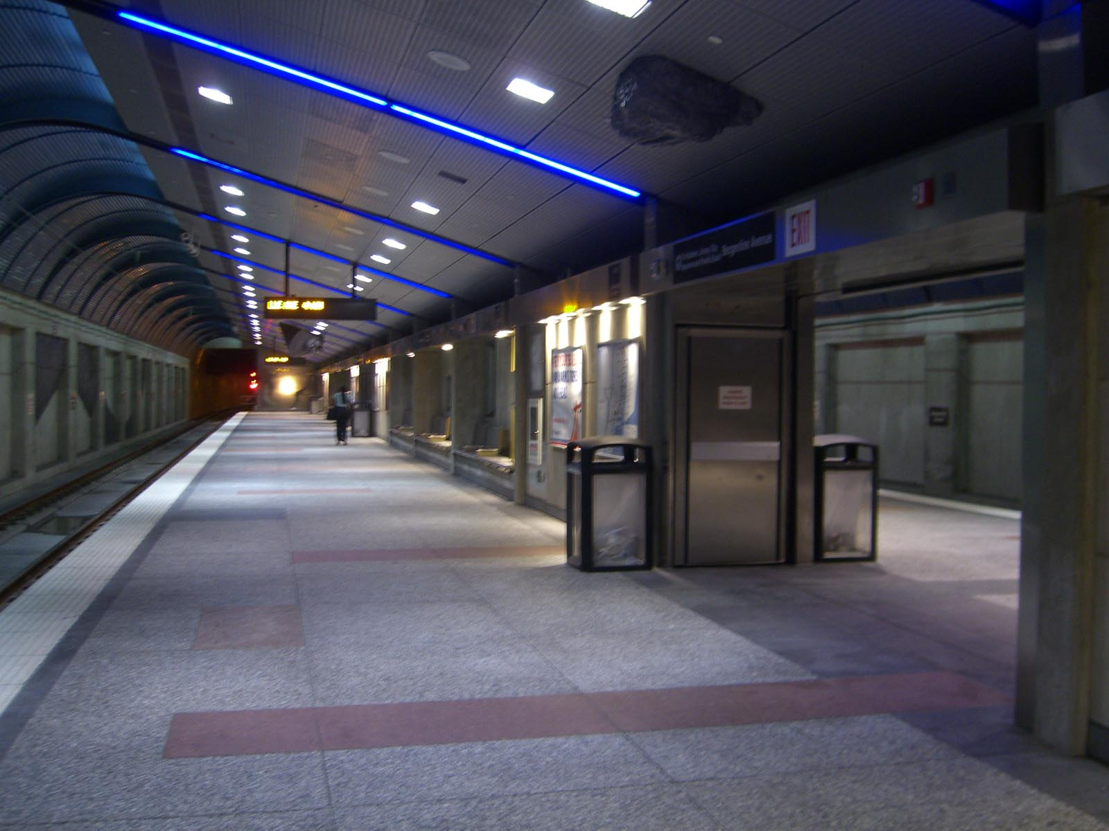 The underground platform of the Bergenline Ave station of the Hudson-Bergen Light Rail line on Bergenline Avenue and 48th Street in Union City, New Jersey.